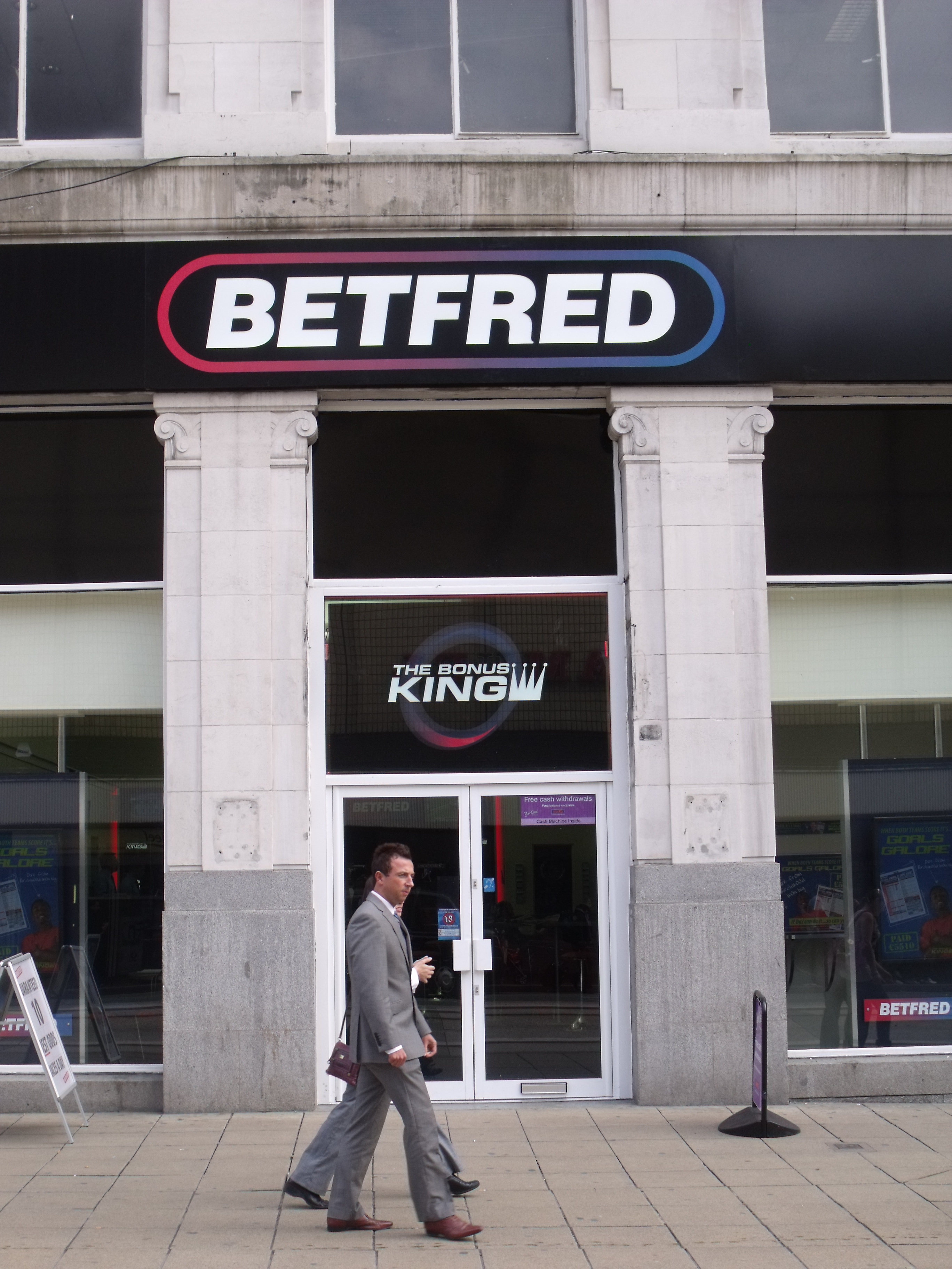 Betfred in Manchester. Photograph taken by myself.